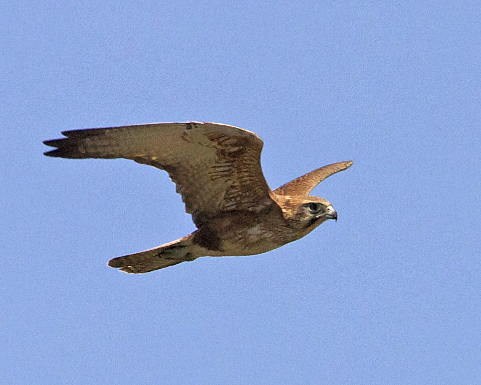 Brown Falcon (Falco berigora), 8th. August 2010. Mary River, near Darwin, Northern Territory, Australia